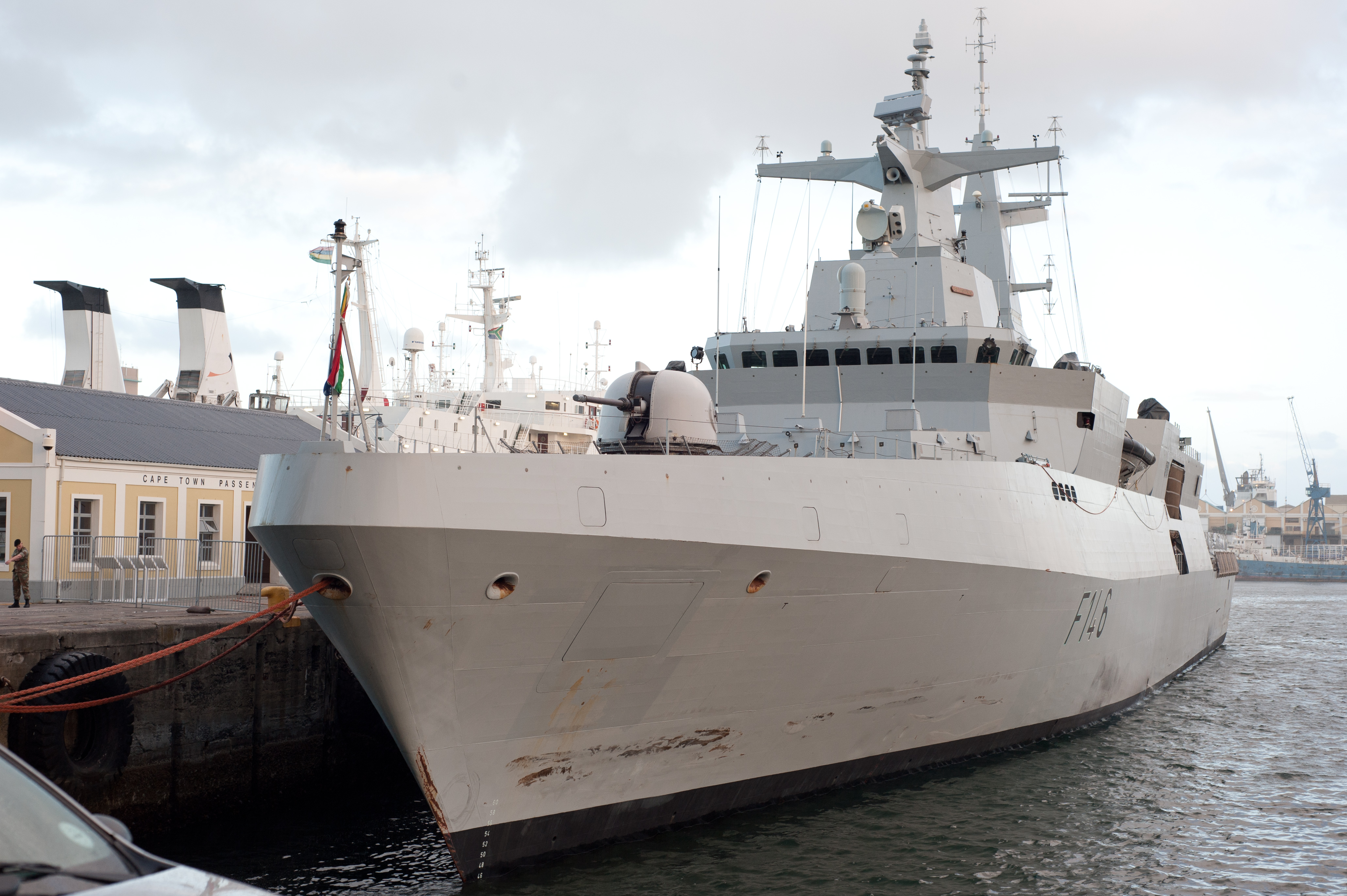 Valour class patrol corvette SAS Isandlwana (F146) moored at V&A Waterfront's Victoria Basin in Cape Town.